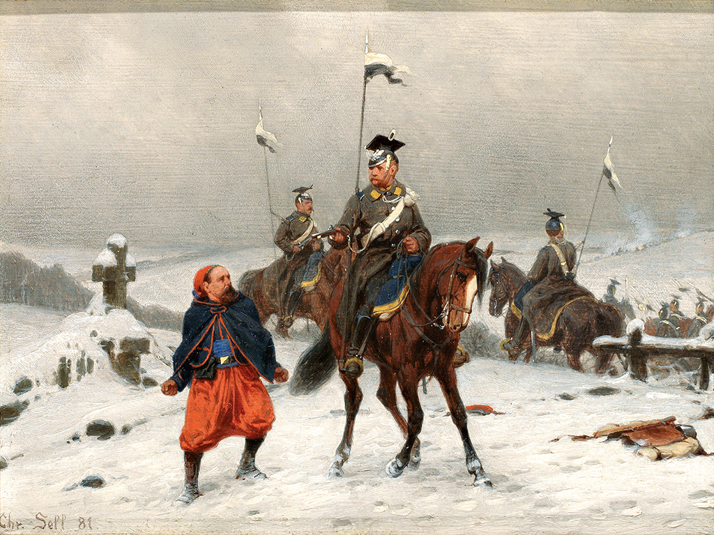 A scene from the Franco-Prussian War of 1870–71: German uhlans capturing a French zouave.